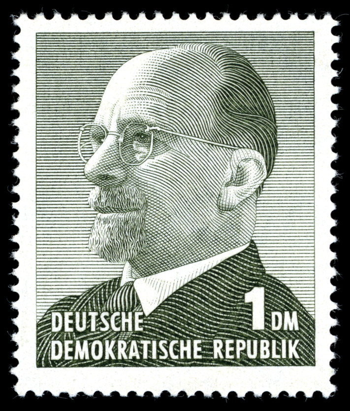 Ausgabepreis: Pfennig First Day of Issue / Erstausgabetag: Auflage: Entwurf: Druckverfahren: Michel-Katalog-Nr: Ländercode-MiNr: Licensing This file is most likely NOT in the public domain. It has been marked for review, and will be deleted in due course if the review does not find it to be in the public domain. This file was previously considered to be in the public domain as a German stamp; it is possible that it is in the public domain for other reasons, in which case a new rationale will be applied as part of the review process. See below for the previous rationale. Previous public domain rationale, no longer applicable This stamp is in the public domain in Germany because it was released by the postal administration of the German Democratic Republic or the Soviet occupation zone (Deutschen Post der DDR) whose legal successor is the Federal Republic of Germany. Thus it is an official work according to German copyright law (§ 5 Abs. 1 UrhG).